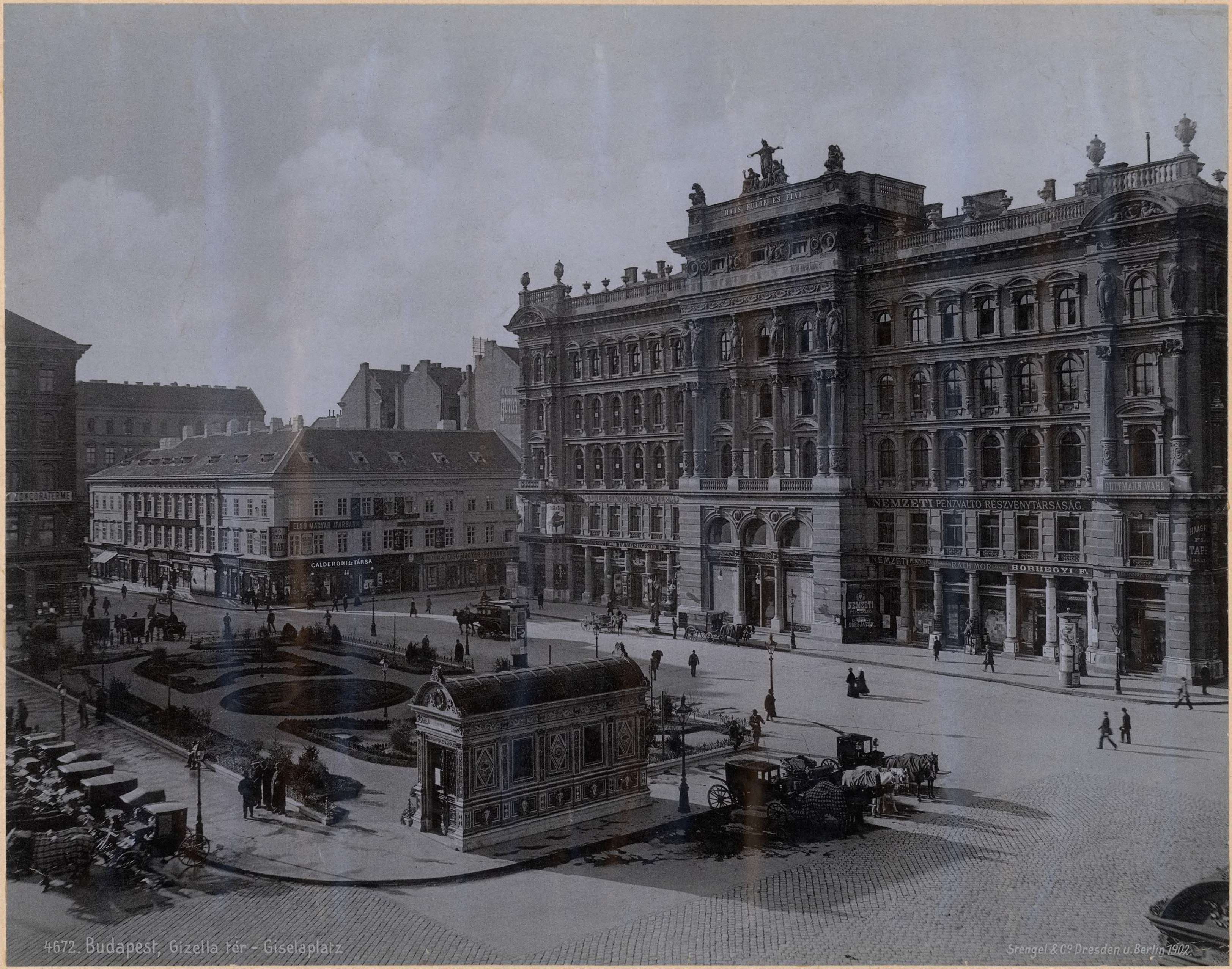 Budapest Haas palace planned by István Linzbauer, built to retail and apartment building in the 1870s. Damaged under WWII, demolished 1959. Now the Vörösmarty Square 1 shopping- office building (built in circa 2008, planned by György Fazekas and Jean-Paul Viguier) is here.